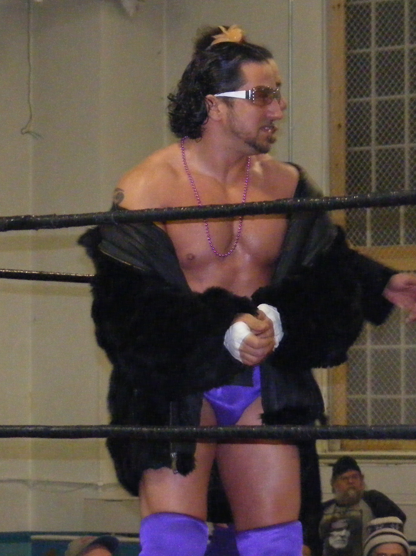 Jason Rumble on January 30, 2010 in Middlebury, VT at a professional wrestling show. Cropped from original.